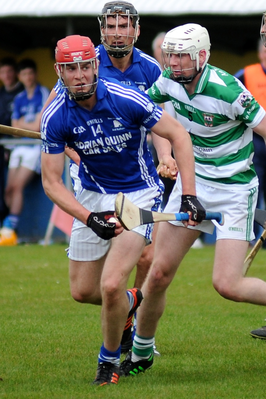 Jonathan Glynn in action for Ardrahan against Mullagh in the 2013 Galway Senior Hurling Championship